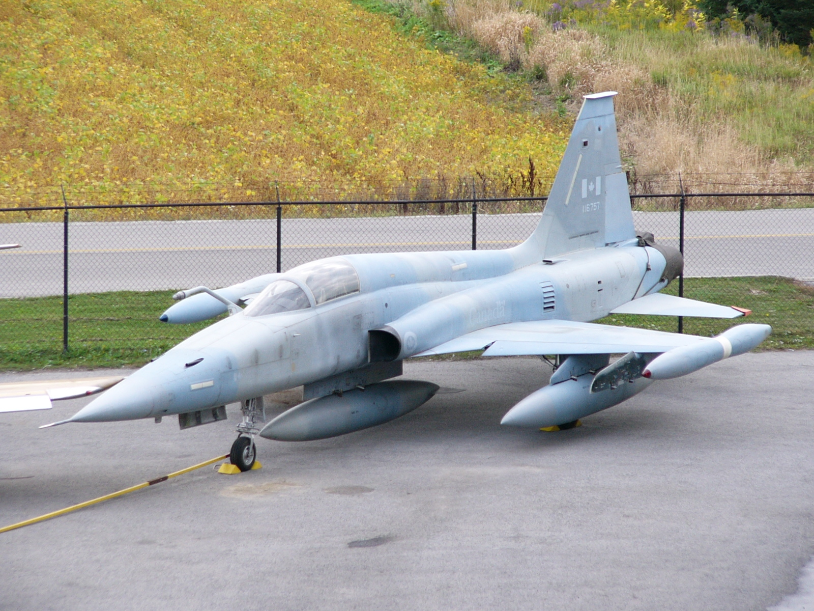 Canadair CF-5A serial number 116757 taken at the Canadian Warplane Heritage Museum